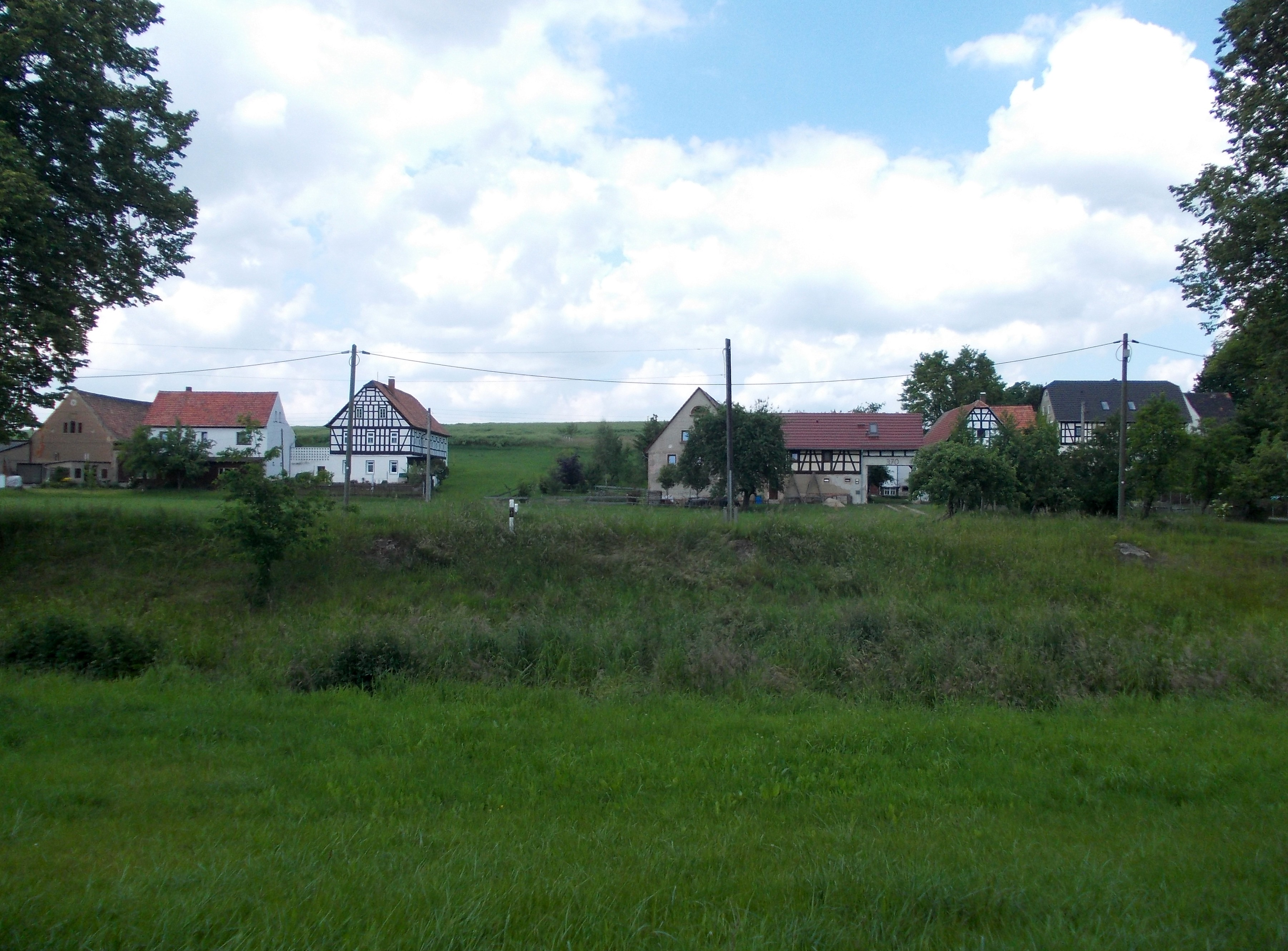 Röhrsdorf (Oberwiera, Zwickau district, Saxony)